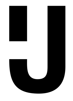 Ligature for uppercase IJ character in the Helvetica font distributed with the Omega TeX system.